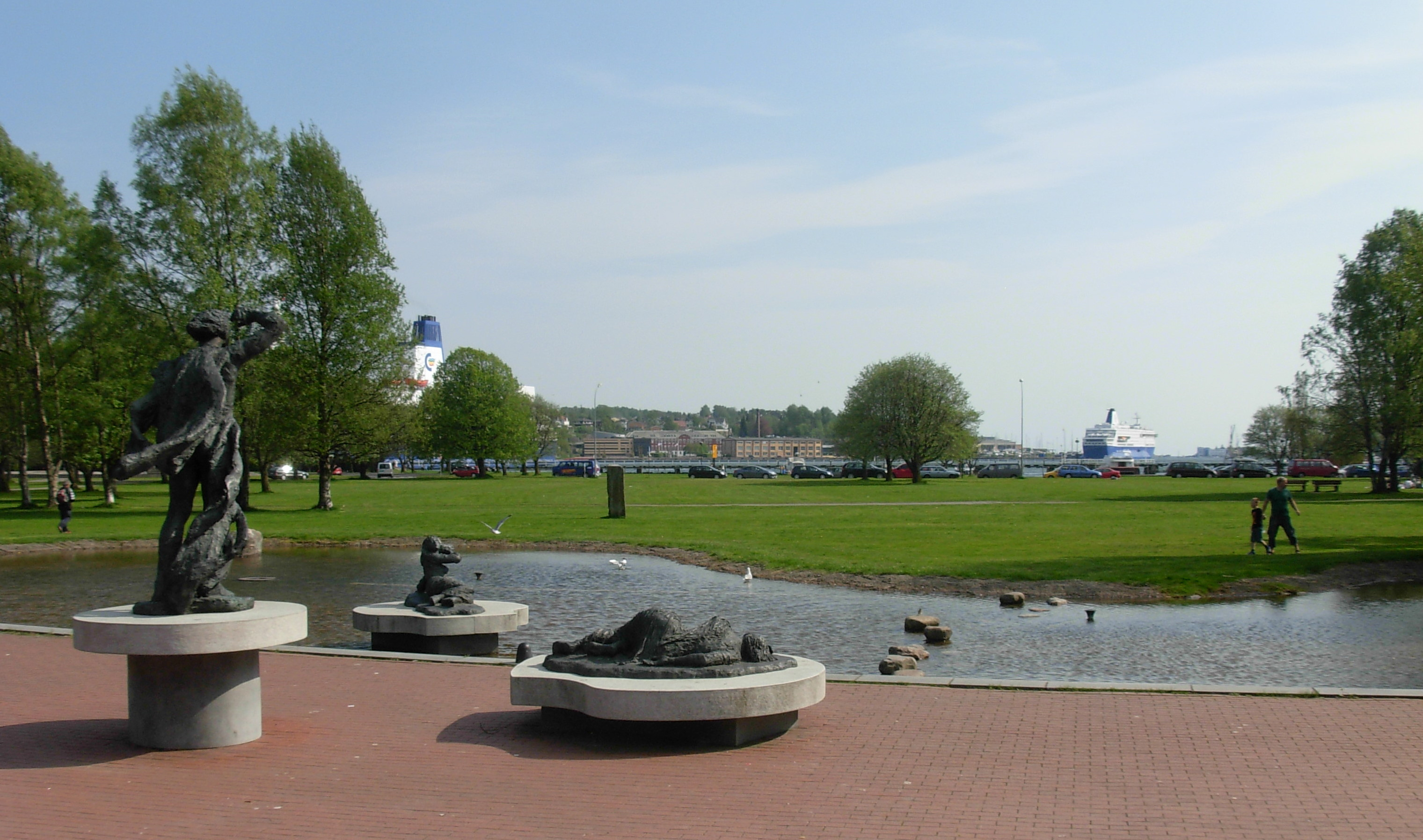 Badeparken and the Sandefjord Fjord, Norway